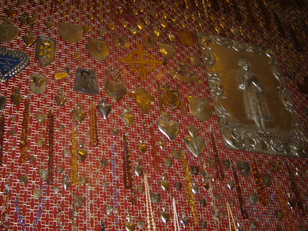 Votive offerings in the Chapel of Our Lady of Częstochowa